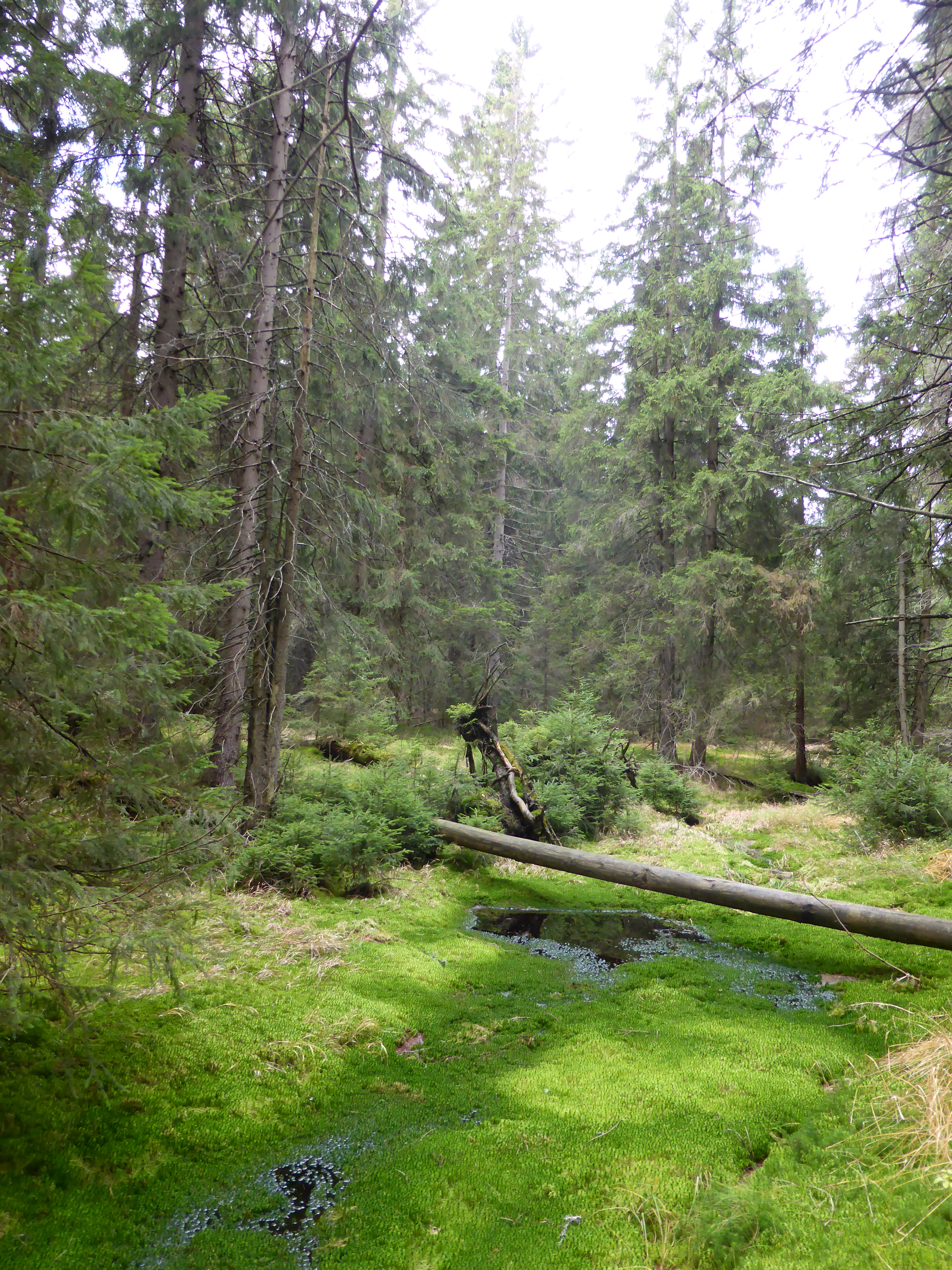 National Nature Reserve Skřítek Bog